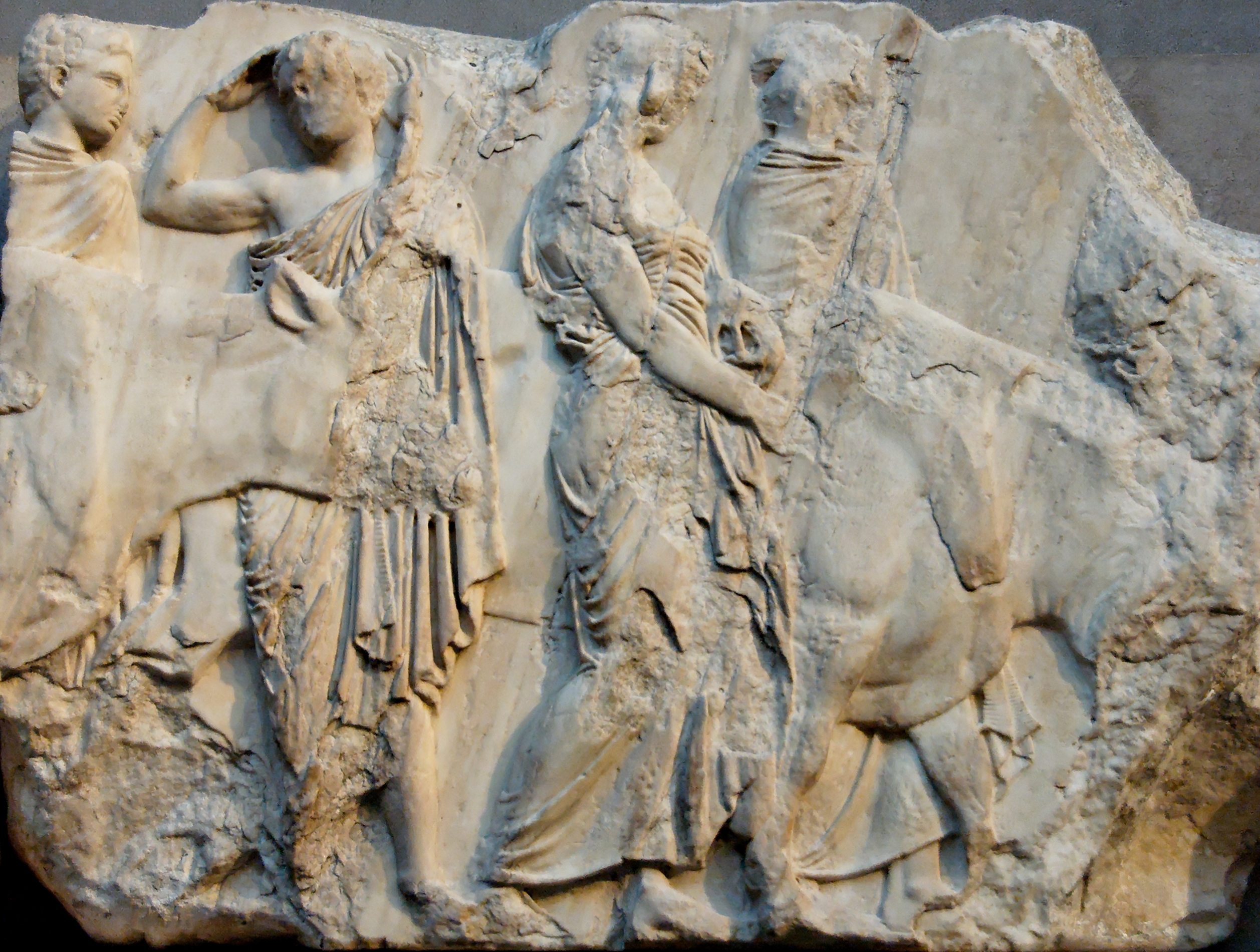 Cattle led to the sacrifice. Blocks XLV, 137 and XLVI, 144 from the south frieze of the Parthenon, ca. 447–433 BC.